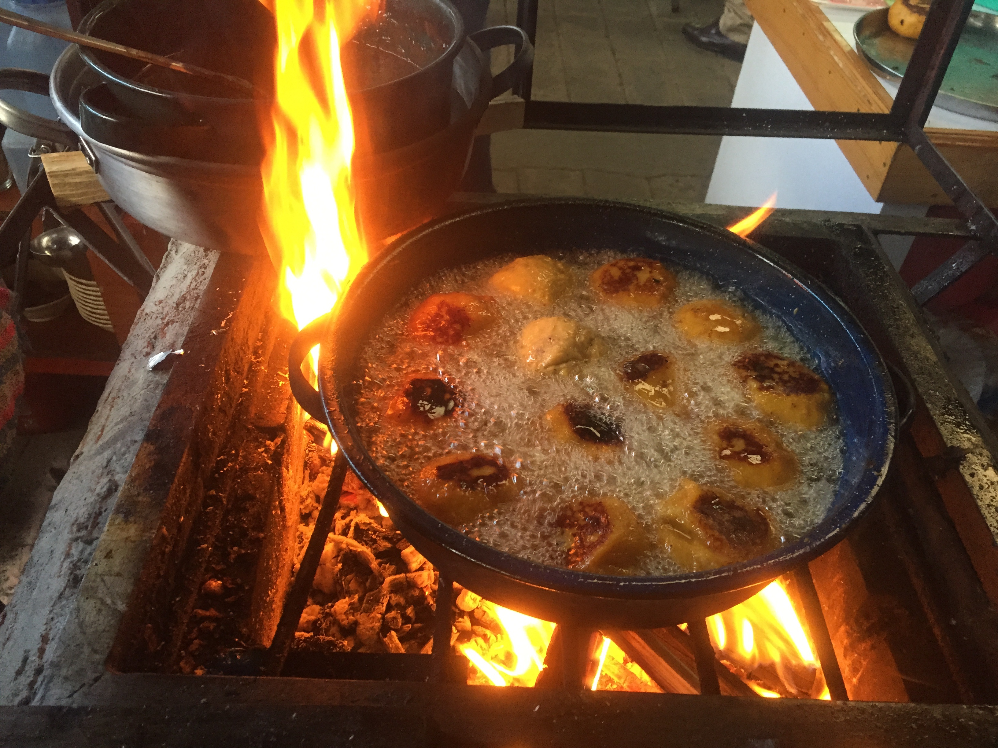 Rellanos de platanos y frijoles -- Guatemala